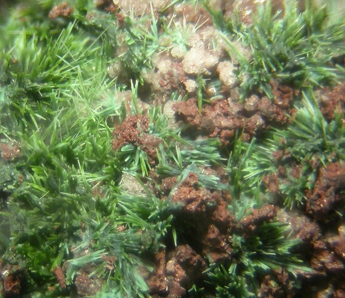 Piypite Locality: Great Fissure (Main Fracture) eruption, Tolbachik volcano, Kamchatka Oblast', Far-Eastern Region, Russia Green acicular xls of Piypite [possibly klyuchevskite, specimen is sealed in a plasticbox. Field of view 5 mm. Depth of field is achieved with CombineZM. Specimen and photo Leon Hupperichs.